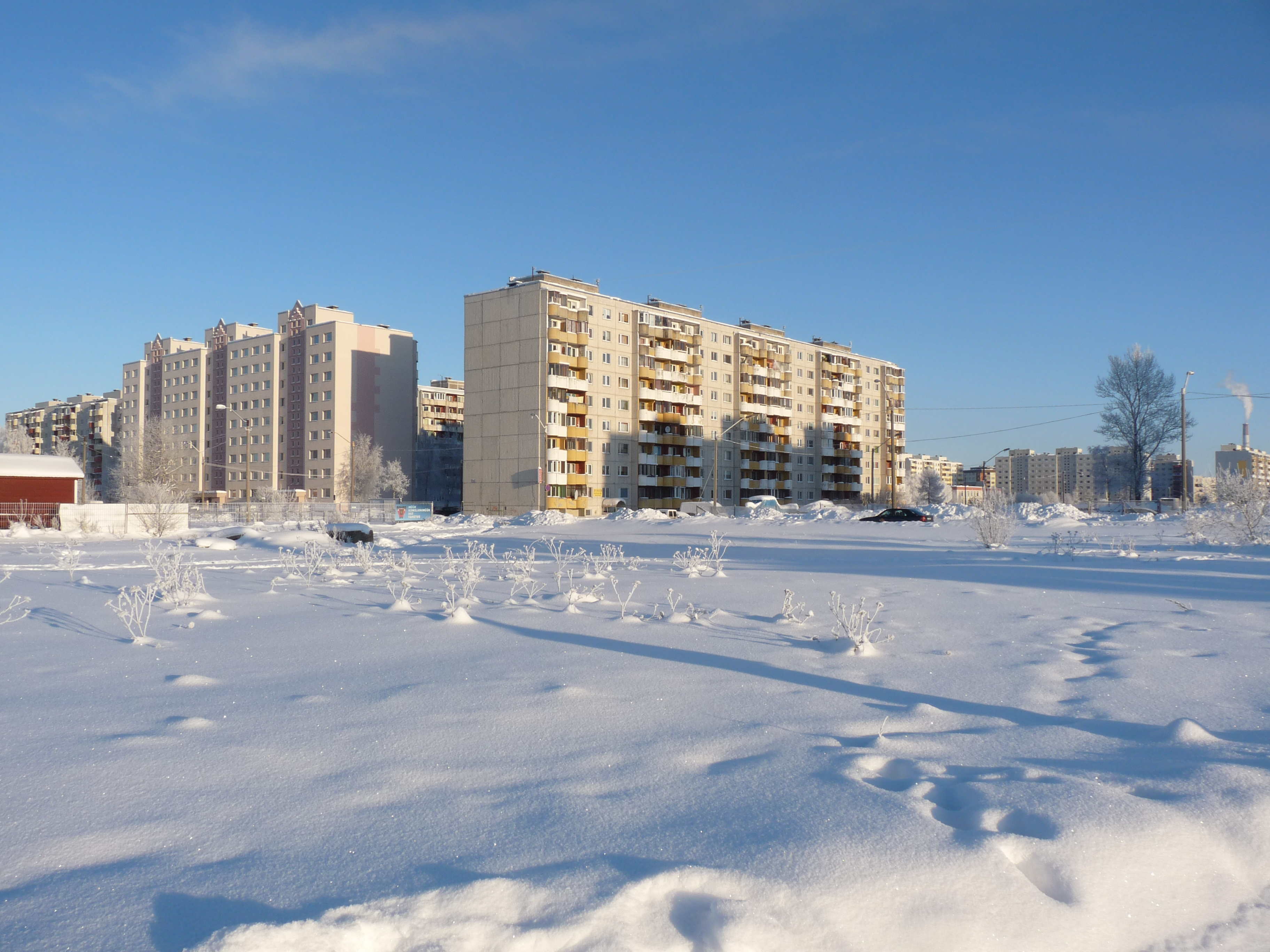 Priisle quarter in Tallinn